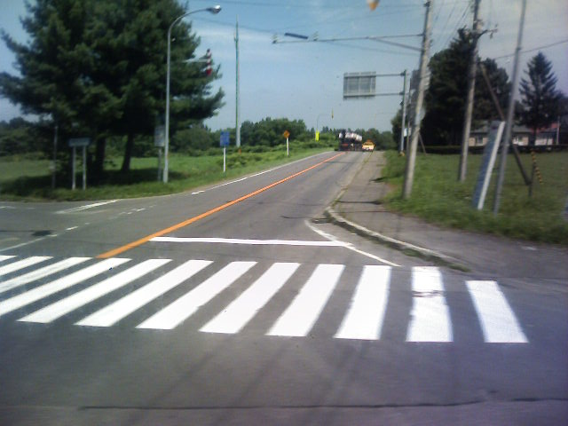 Hokkaido prefectural road route734, shimizu, Hokkaido, Japan